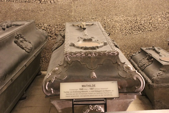 Tomb of Mathilde of Austria-Teschen at the Imperial Crypt in Vienna, Austria